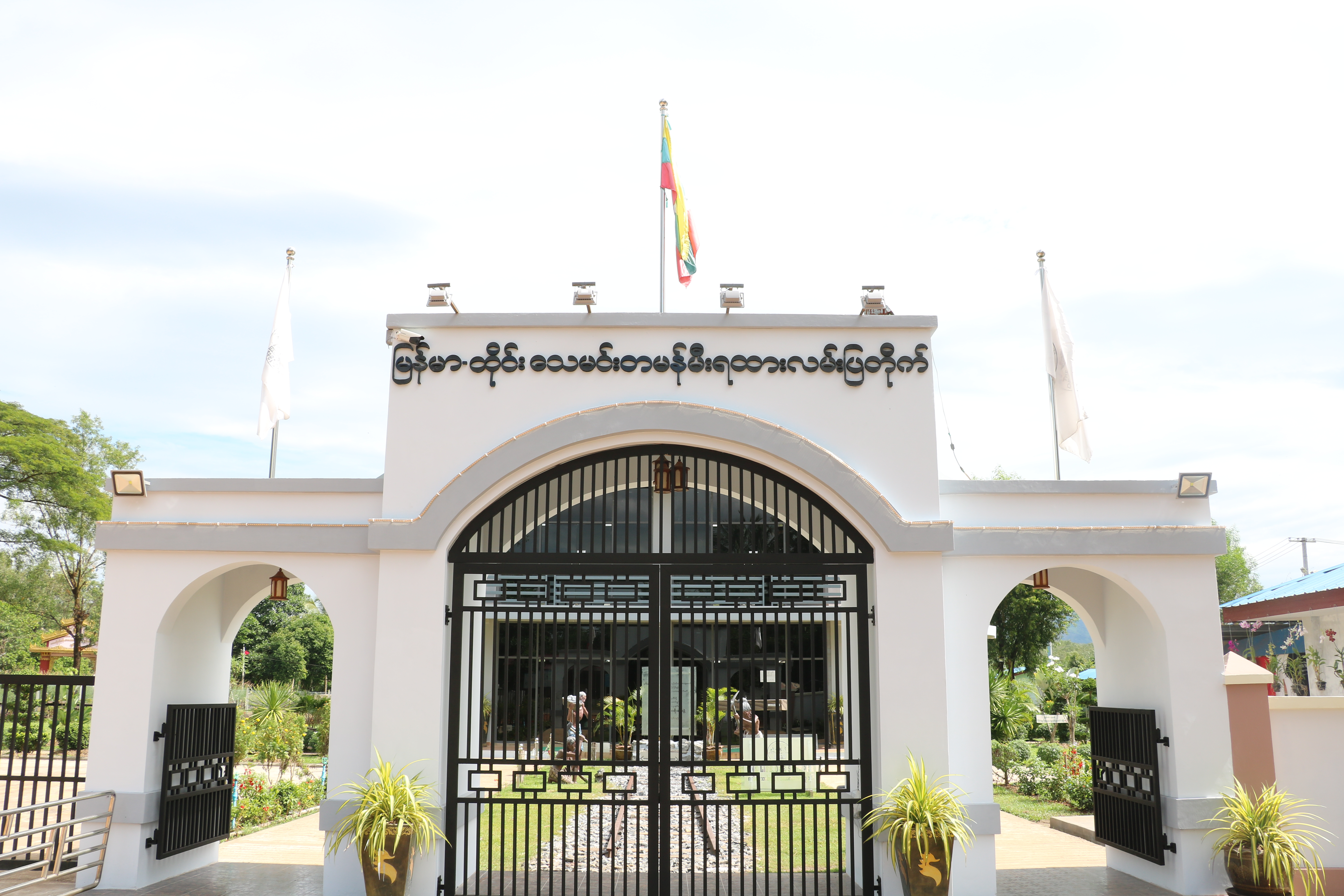 Mawlamyine_ Death Railway Line Museum